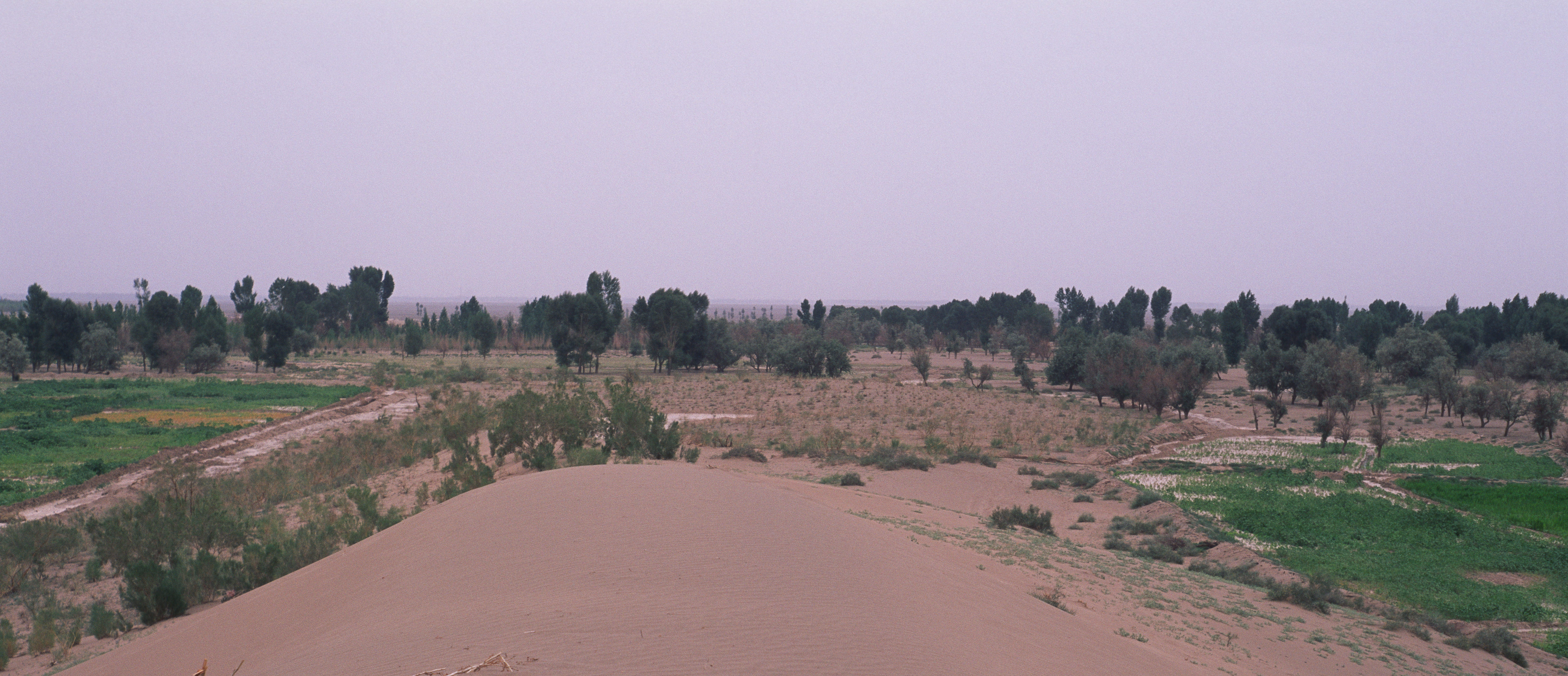 Semidesert in Ganso